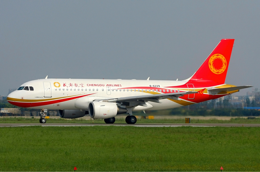 Chengdu Airlines Airbus A319-112